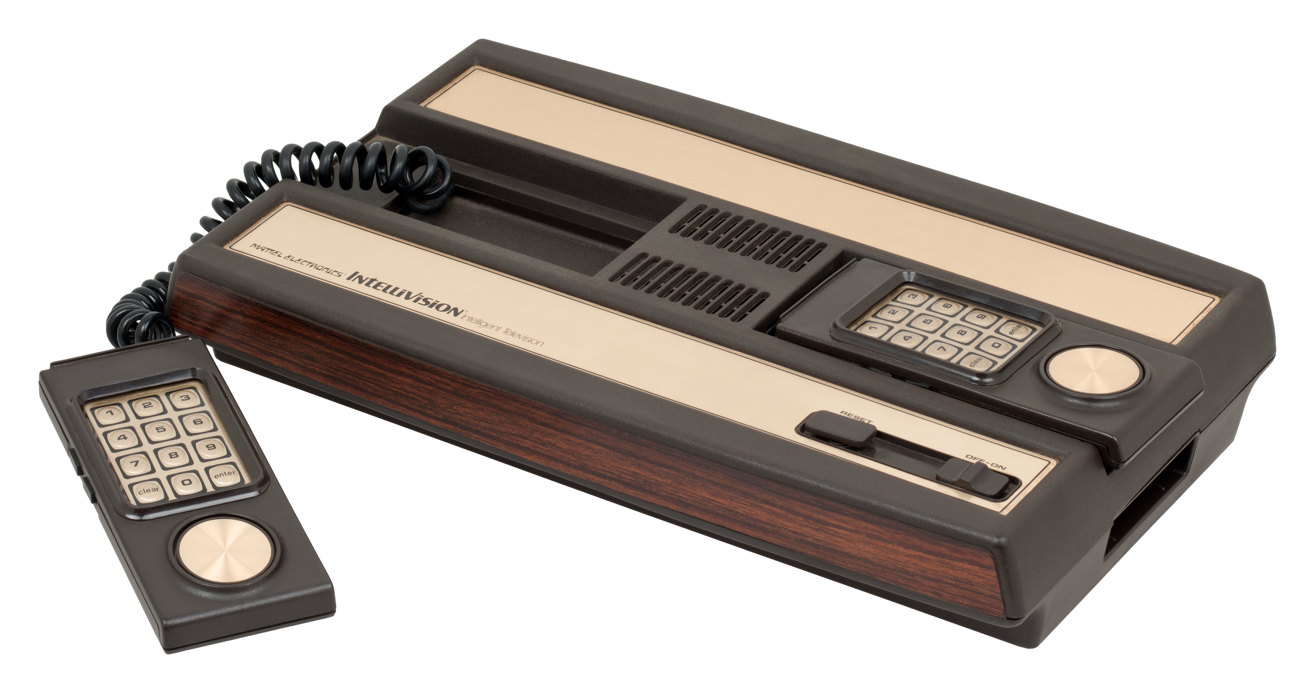 The Intellivision, a 2nd generation video game console released by Mattel in 1979.